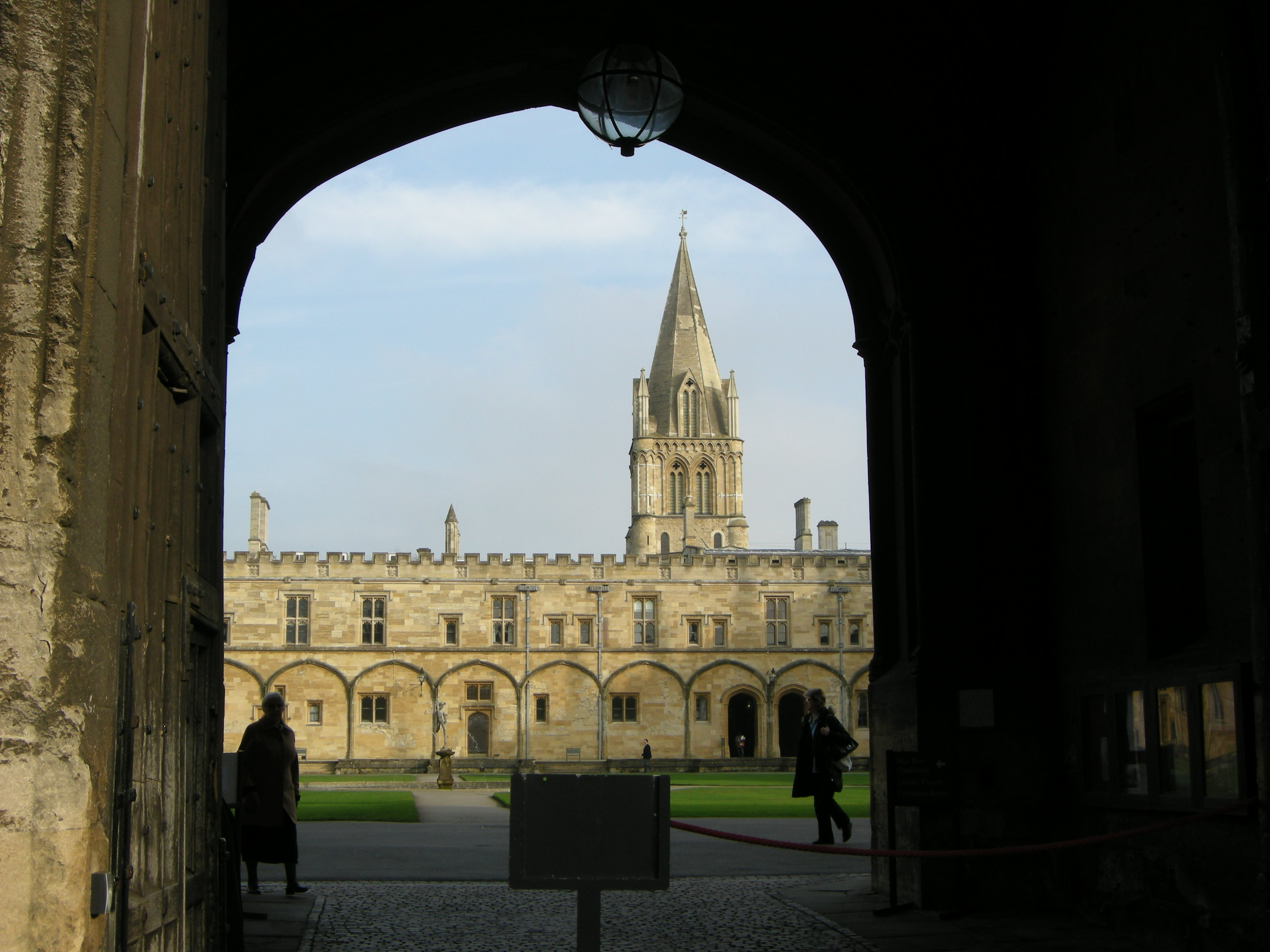 Christ Church Great Quadrangle